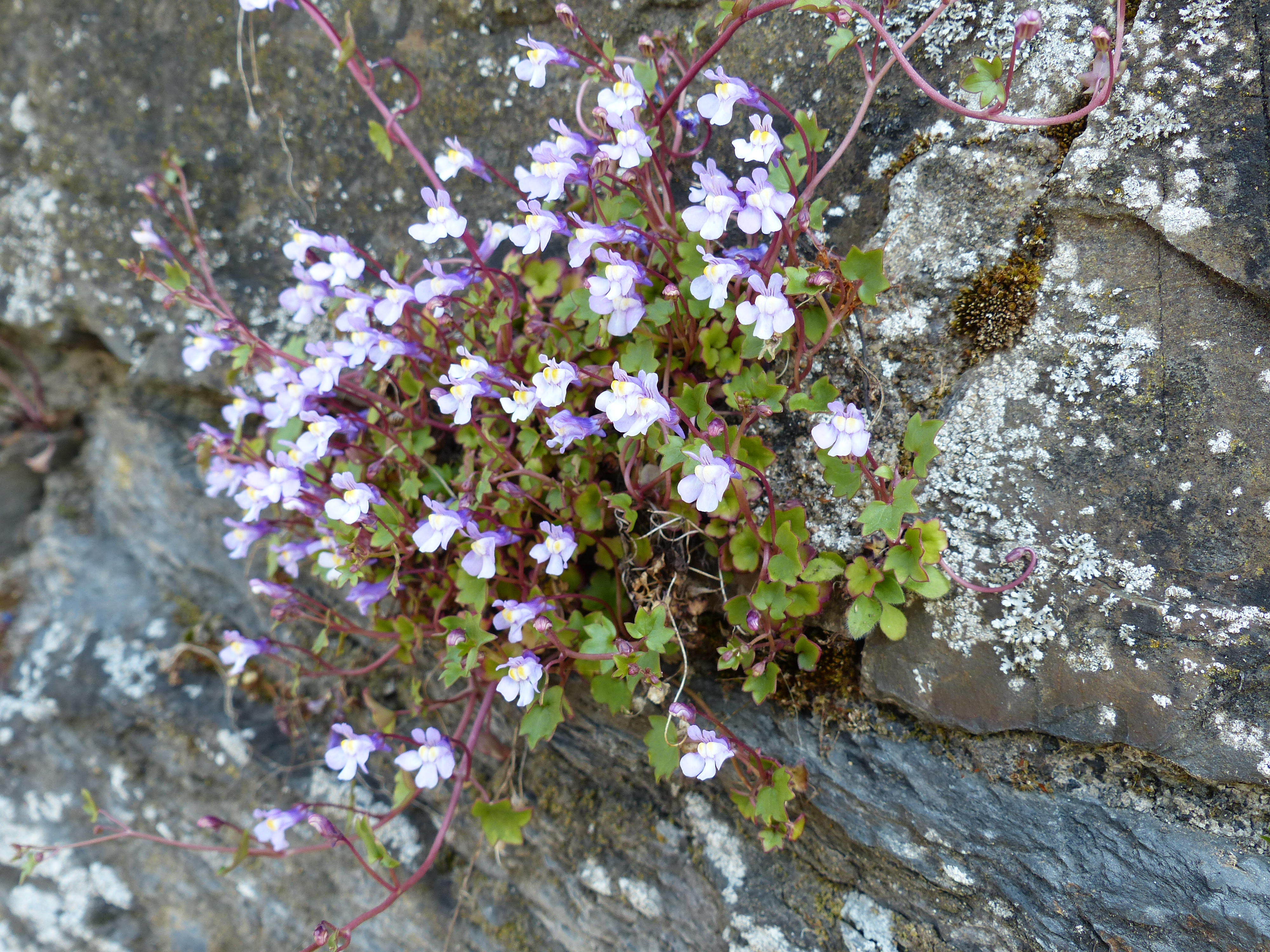 Cymbalaria muralis, Zymbelkraut